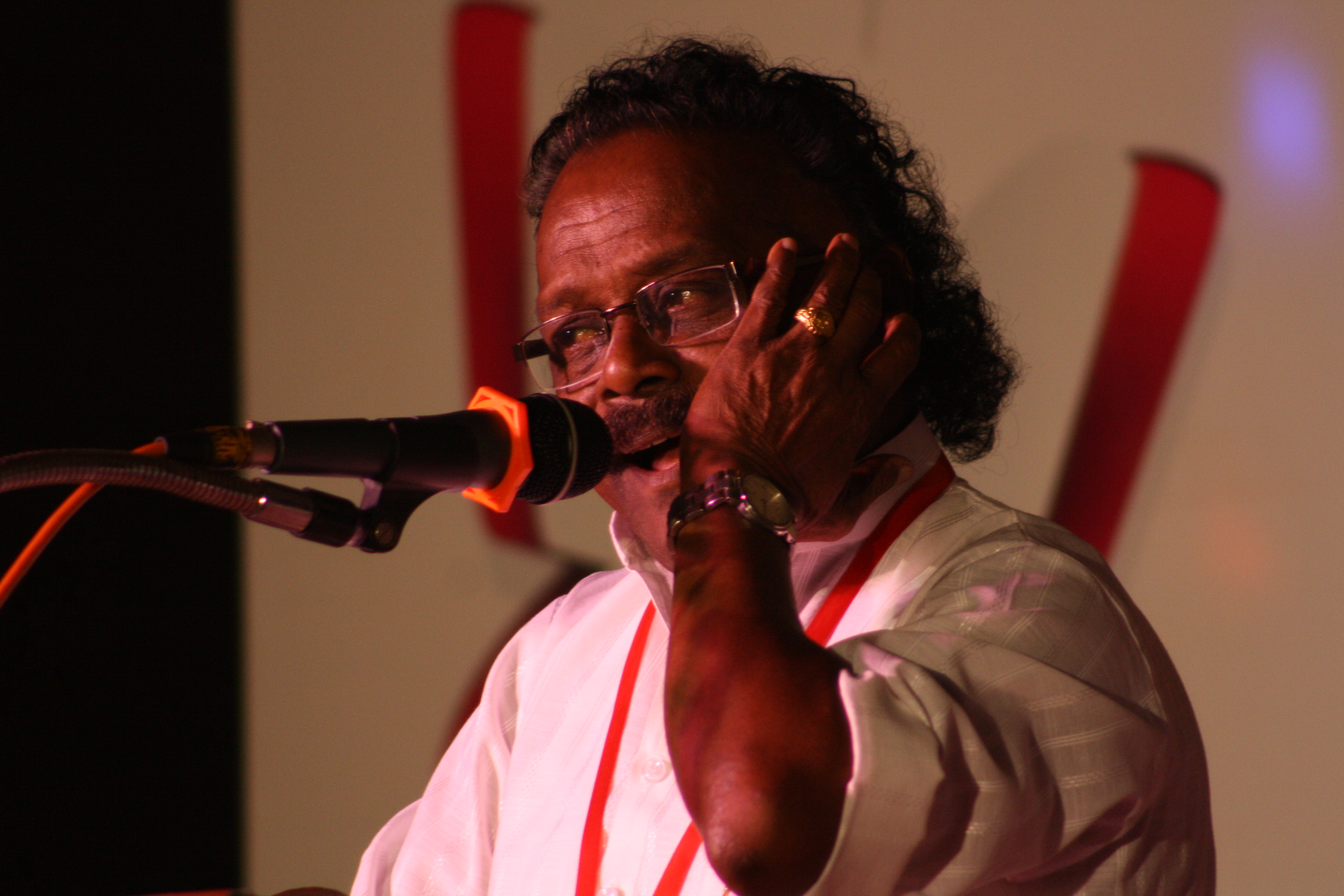 Dr.C.J.Kuttappan talking and singing at new year celebrations at CRC Kadambery, Bakkalam, Kannur